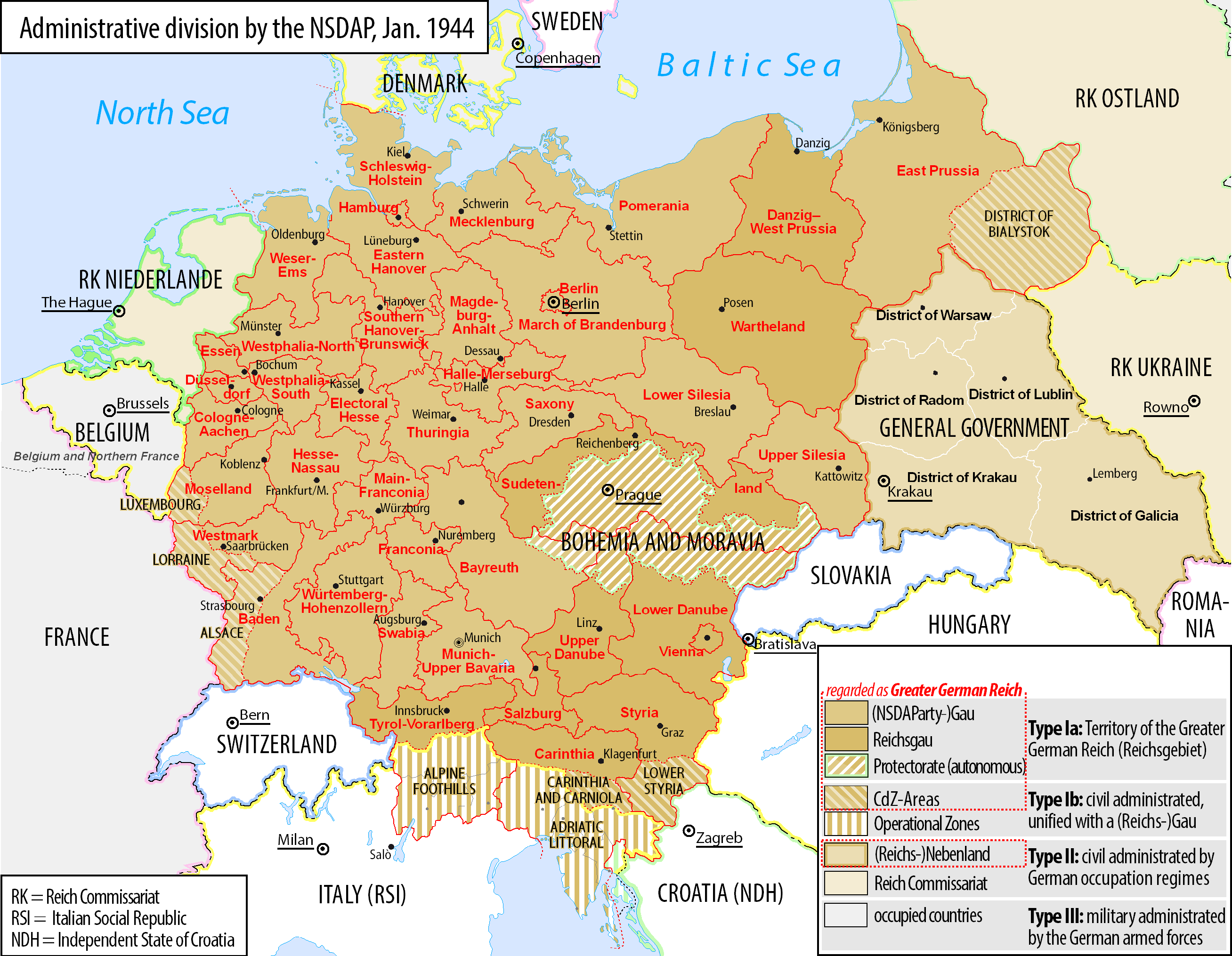 Map of the administrative division of the Greater German Reich (»Großdeutsches Reich«/»Großdeutschland«/"Greater German Empire"/"Greater Germany") by the NSDAP 1944 (in English).